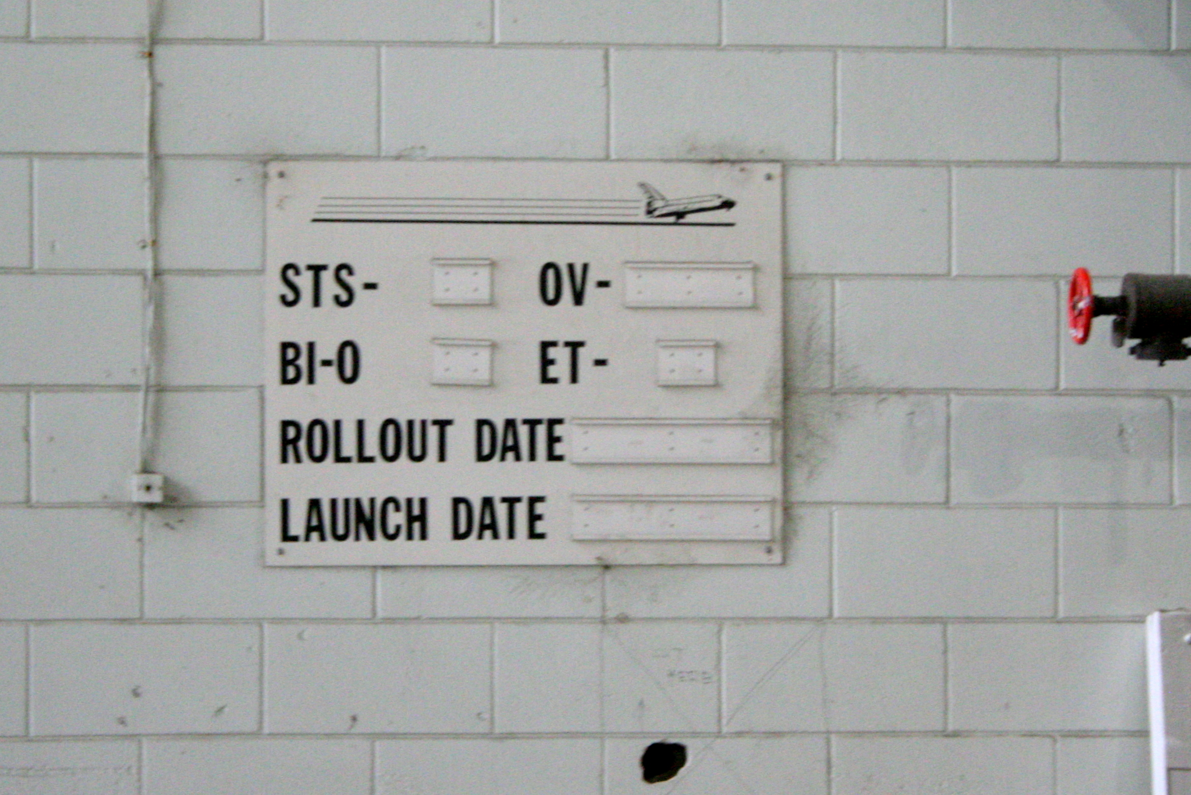 Status board in the Vehicle Assembly Building at the Kennedy Space Center showing status of upcoming launch. Taken several weeks after the final launch of the program.